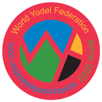 World Yodel Federation Logo designed by Minsung Park